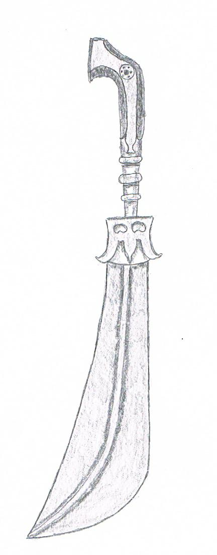 Moplah Sword